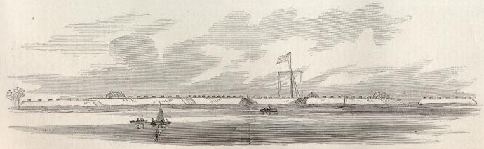 Fort Saint Phillip, Louisiana, as seen from the Mississippi River, 1862.